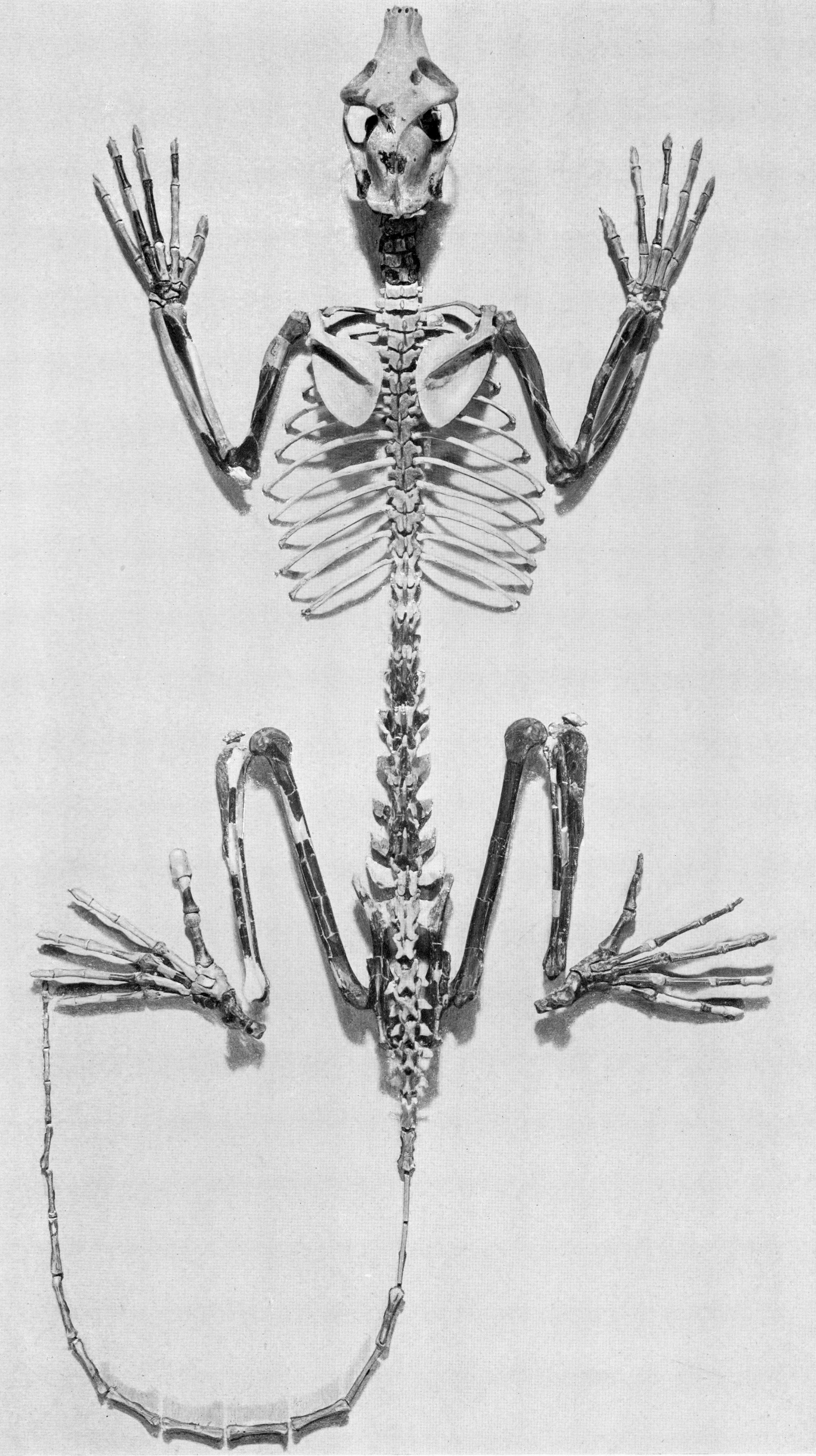 Skeleton of Notharctus osborni.